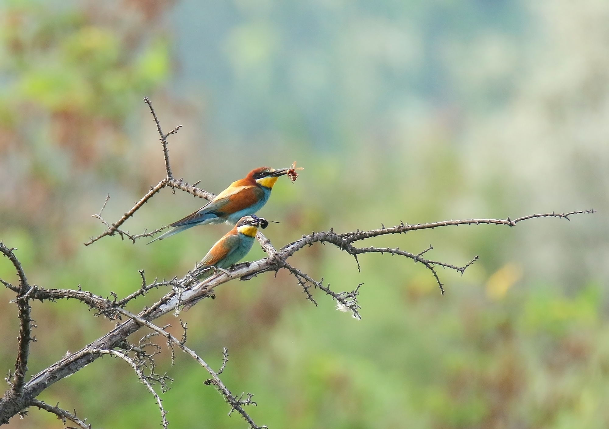 European Bee-eater (Merops apiaster) captured at Gahkuch, Ghizer, Gilgit-Baltistan, Pakistan with Canon EOS 7D Mark II